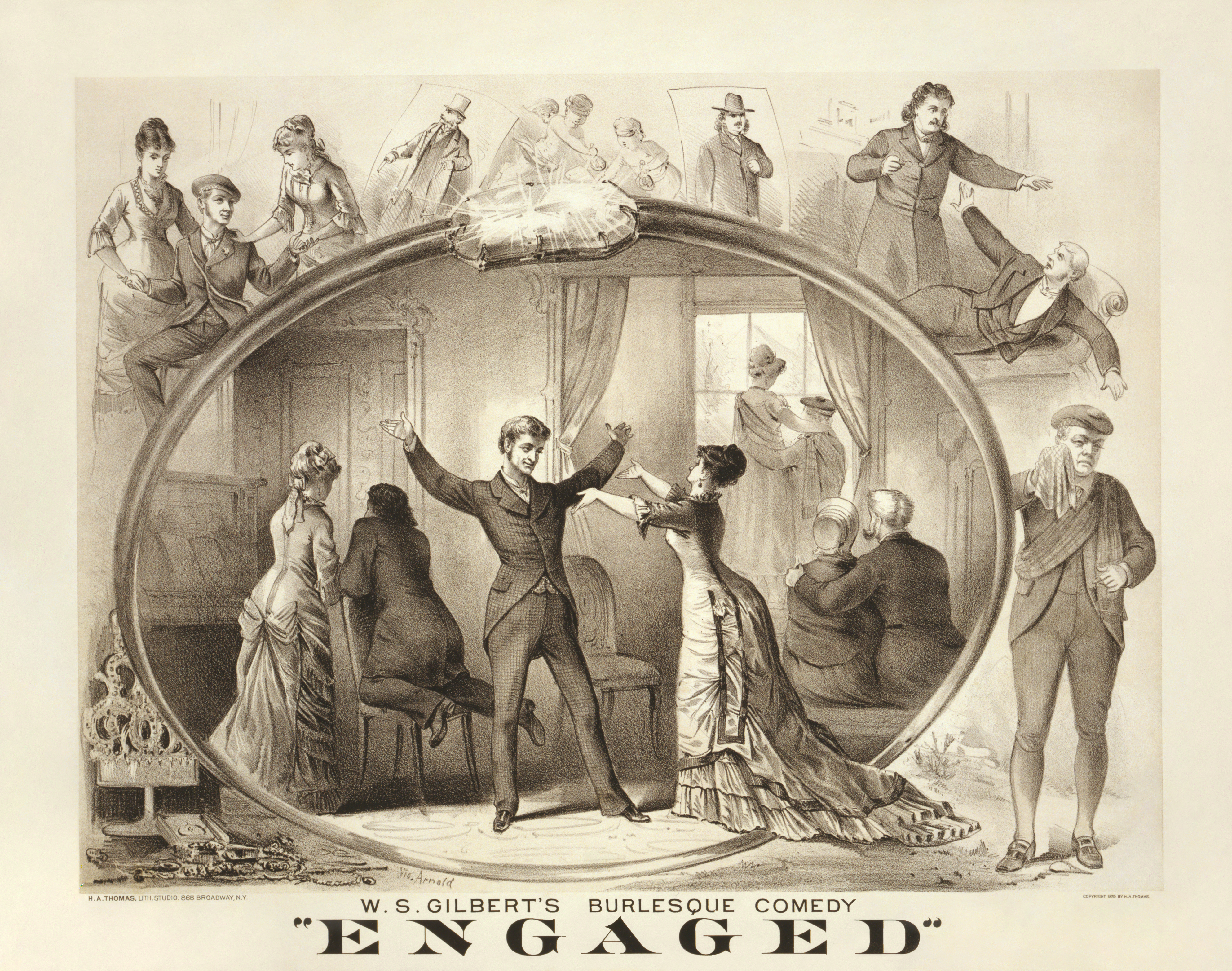 W.S. Gilbert's burlesque comedy, "Engaged" poster Call number: POS - TH - 1879 .E52, no. 1 (C size) [P&P] Reproduction number: LC-USZC4-10765 (color film copy transparency) Part of: Theatrical Poster Collection (Library of Congress) Repository: Library of Congress Prints and Photographs Division Washington, D.C. 20540 USA